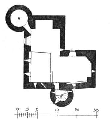 Ground floor plan of Corse Castle, Aberdeenshire. Scale of feet